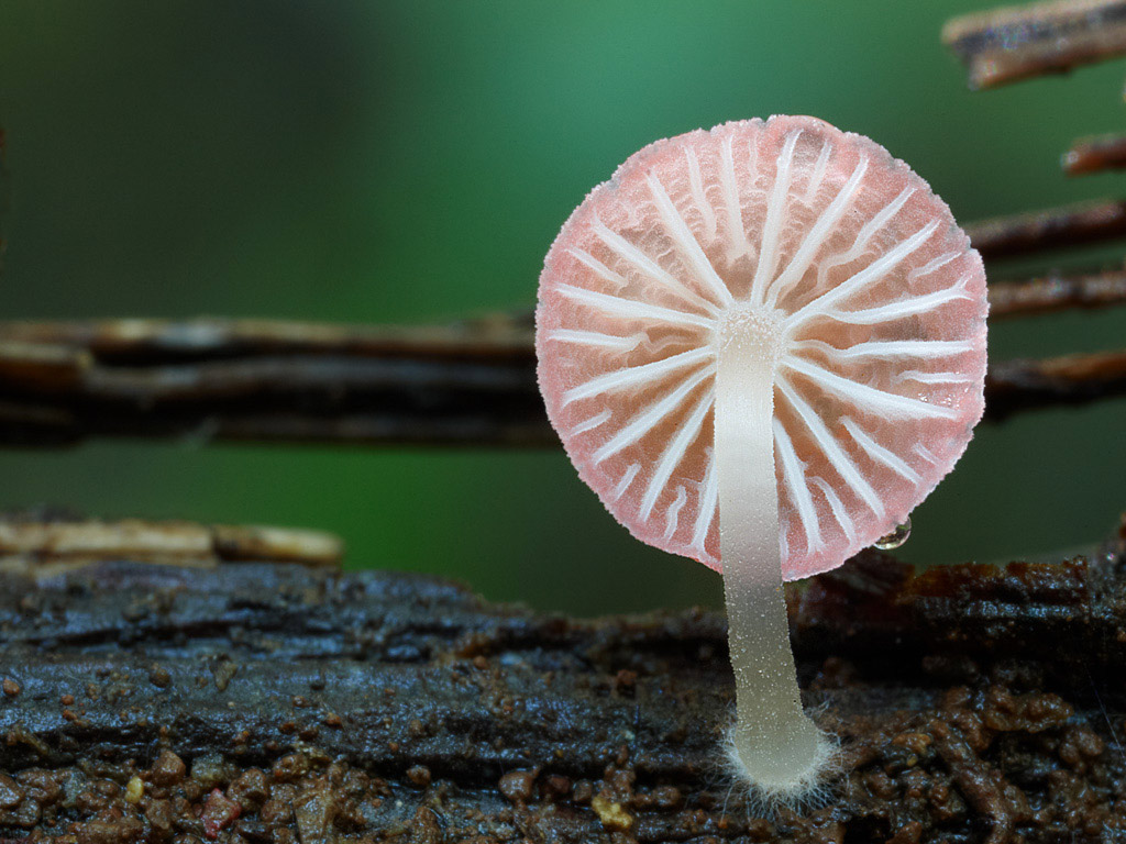 The gills of the mushroom Mycena adonis (Bull.) Gray. Specimen photographed in Minyan Falls, Northeastern New South Wales, Australia.